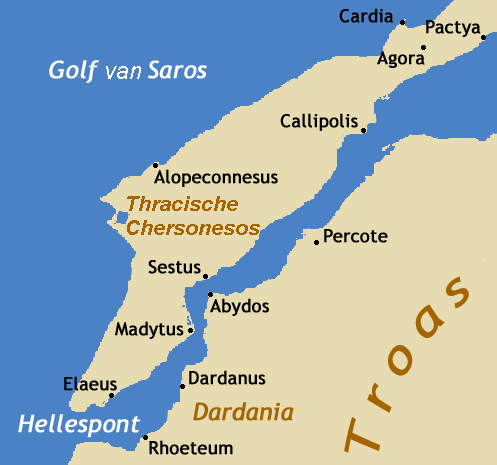 Map of Thracian Chersonese, Dutch version.